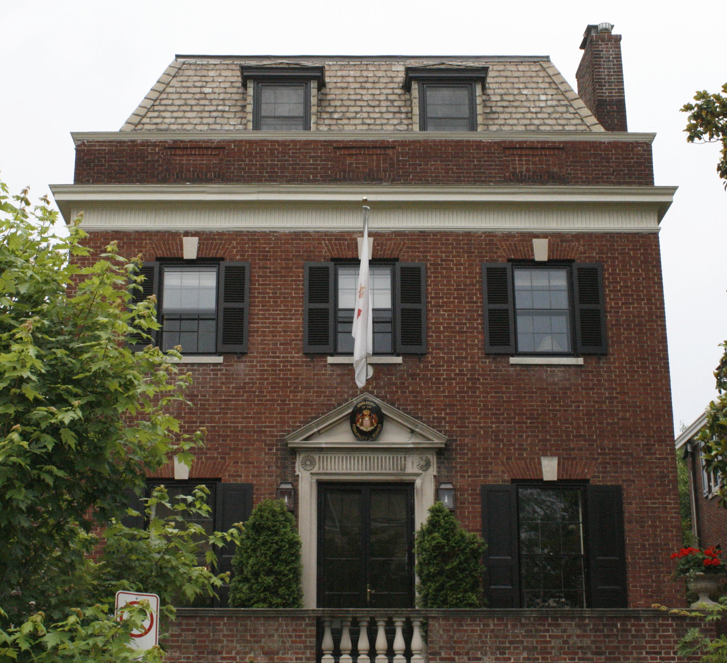 President Warren G. Harding's home . Located at 2314 Wyoming Ave. NW. It is also the former location of the Embassy of the Principality of Monaco (as pictured)